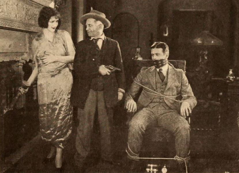 Still from the American comedy romance film The Perfect Woman (1920) with Constance Talmadge, an unidentified actor, and Charles Meredith, on page 71 of the August 7, 1920 Exhibitors Herald.